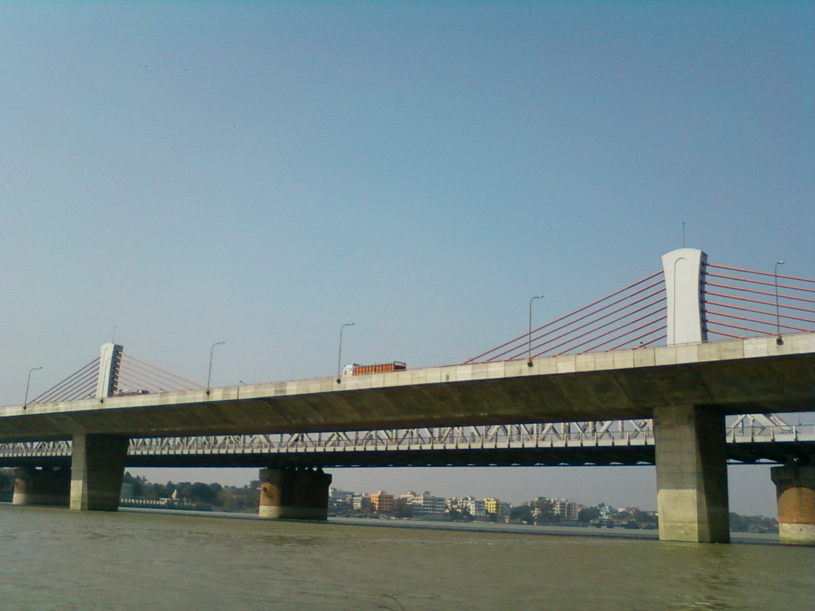 Nivedita Setu from River Hoogly